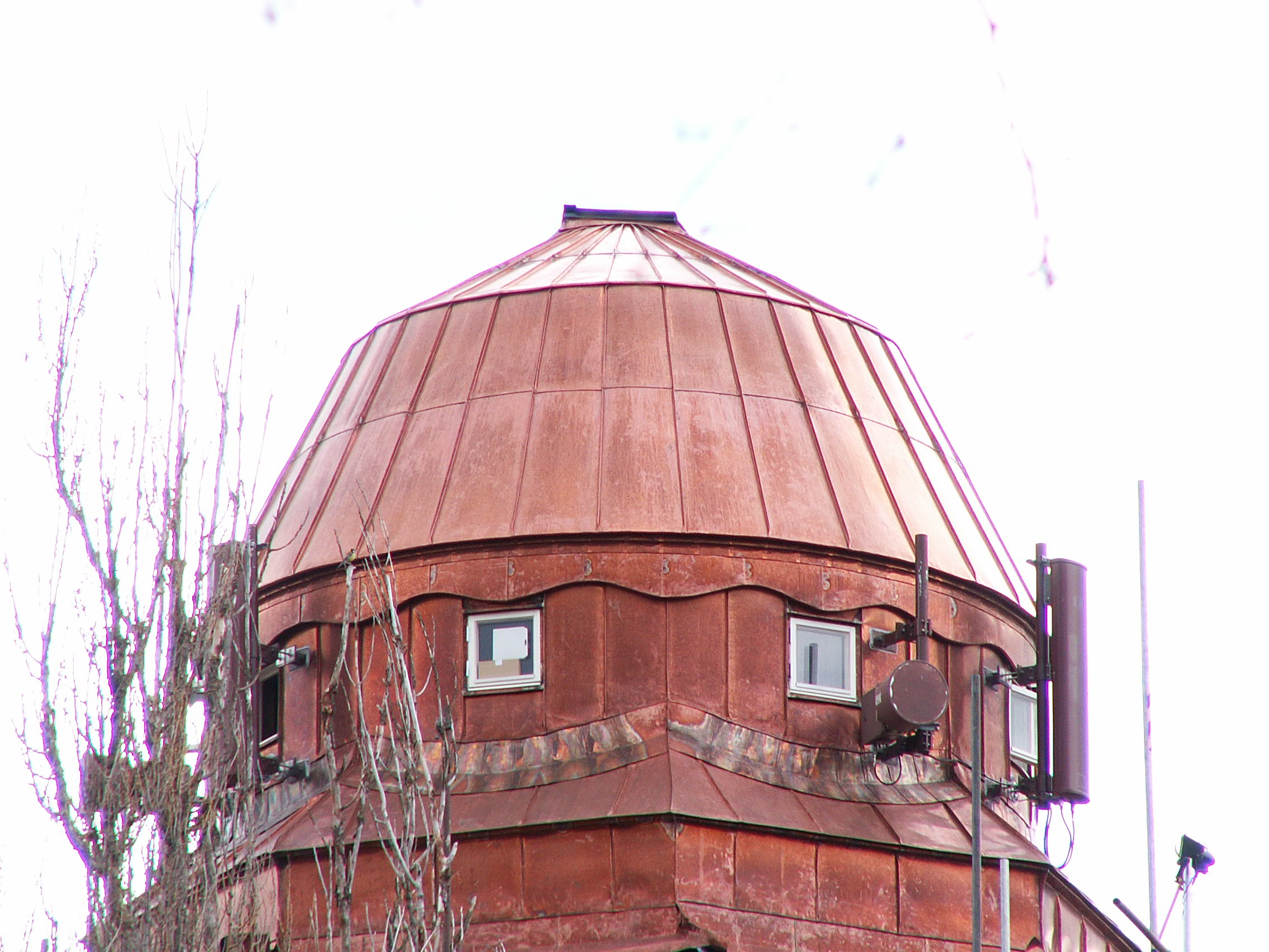 Djursholms samskolas observatory, Djursholm, Sweden